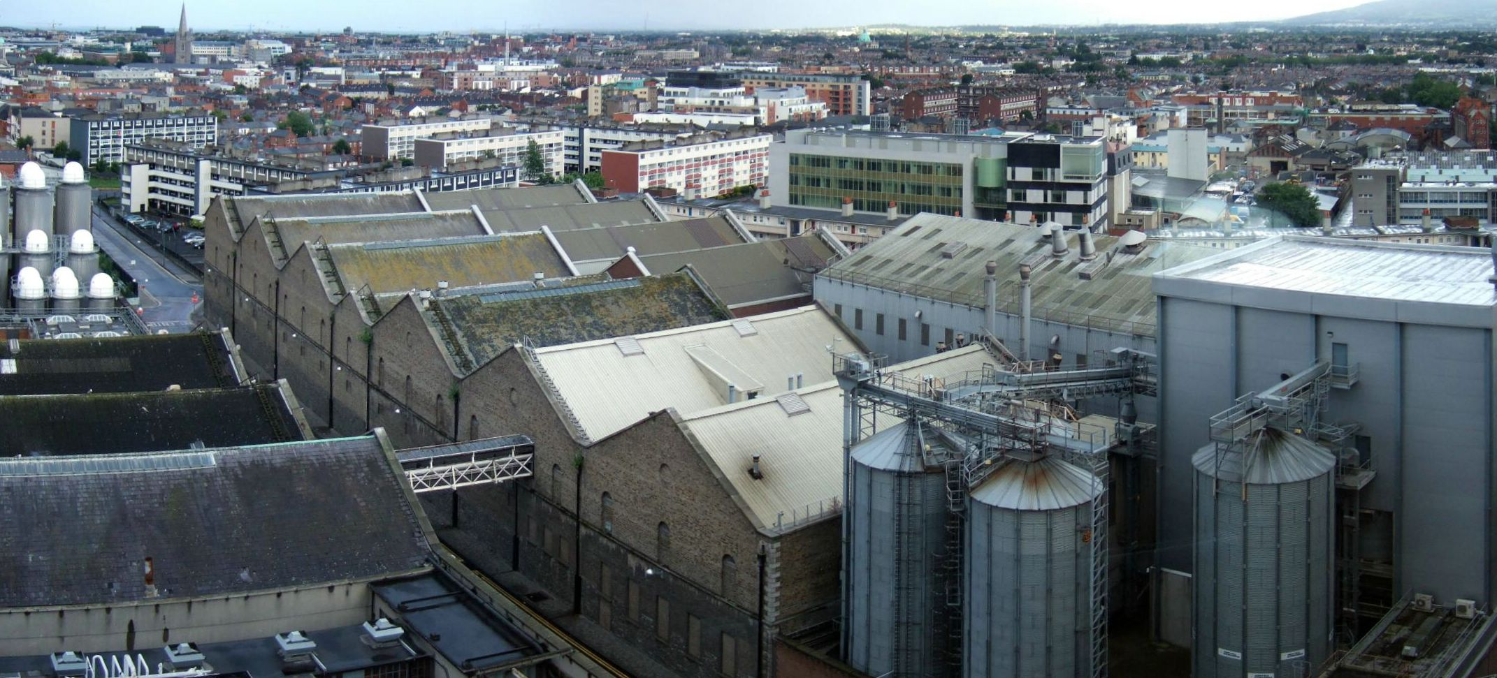 View of the Guinness brewery in Dublin from the Gravity Bar.